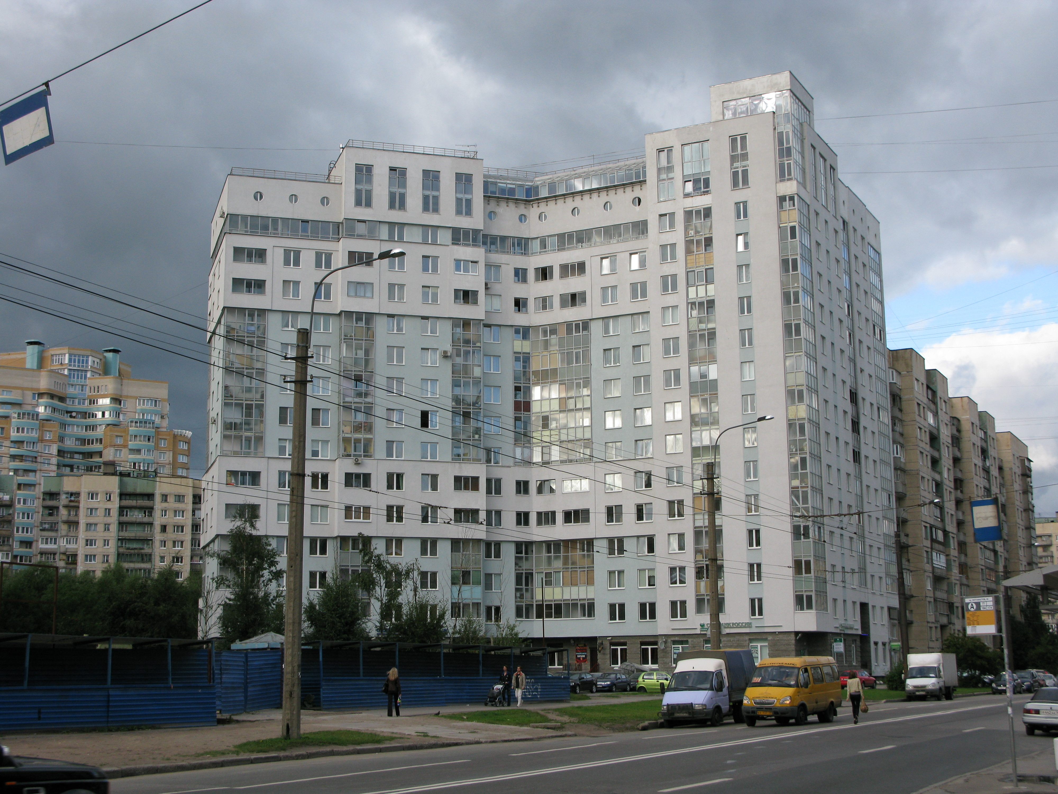 38 Entuziastov Prospekt St. Petersburg